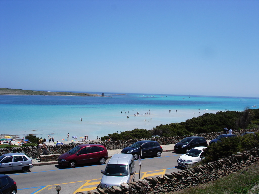 "la pelosa" beach - stintino - province of sassari - Sardinia